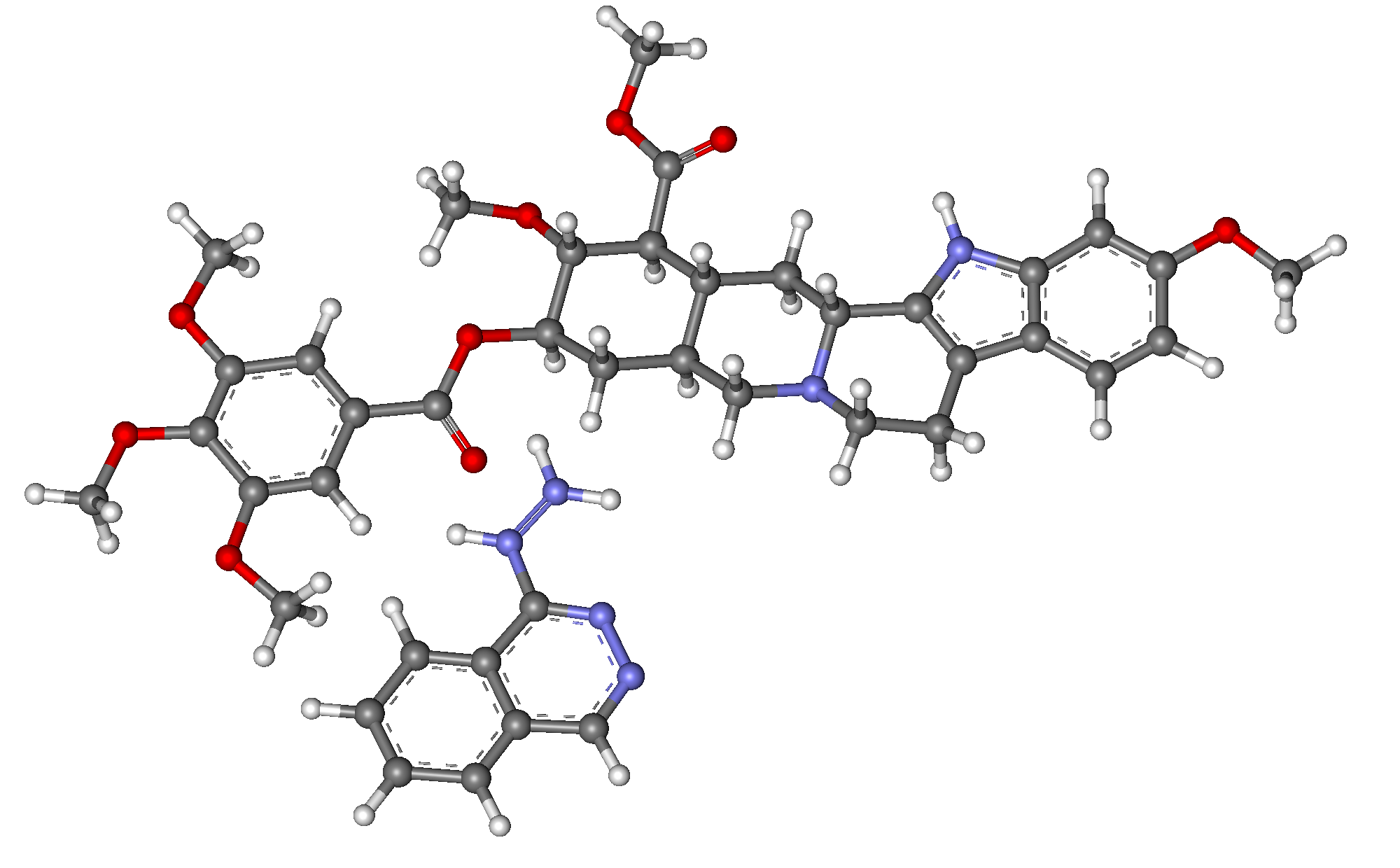 Ball-and-stick model of adelphan molecule. The structure is taken from PubChem. CID 71300666